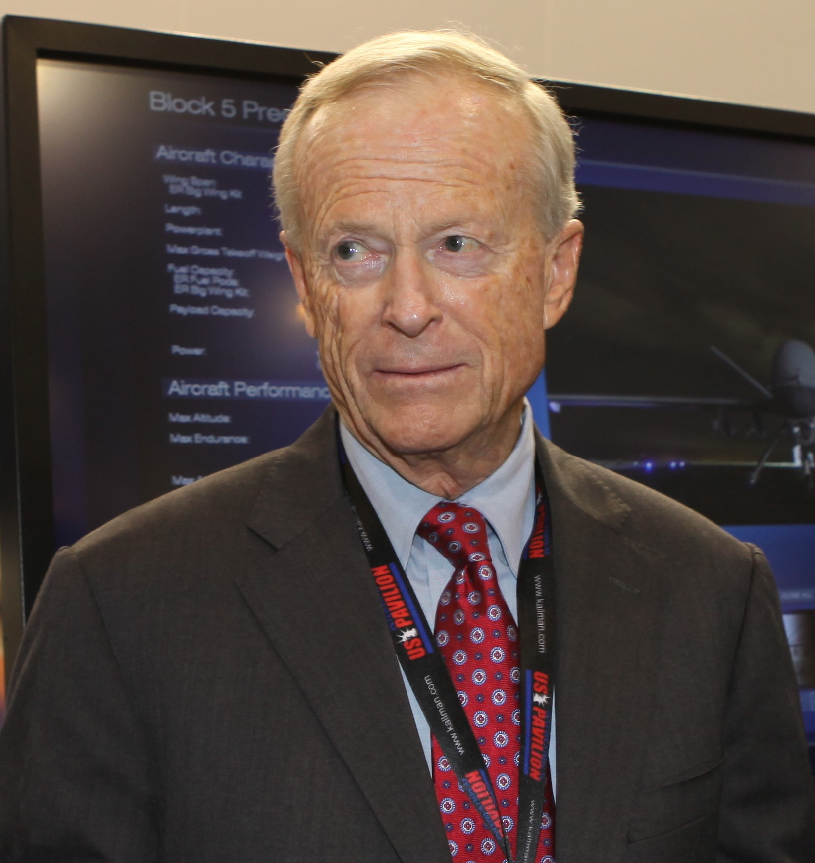 Neal Blue at the Berlin Air Show 2016